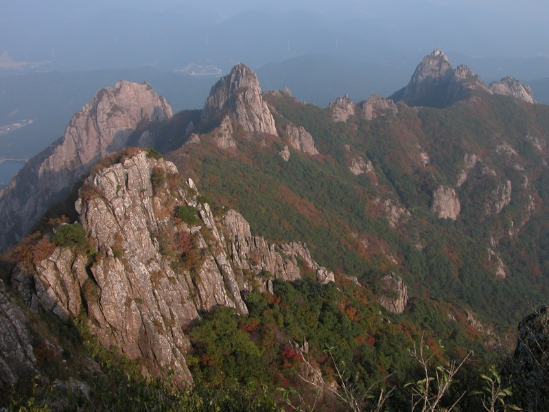 East View from Cheonwangbong,Wolchulsan.jpg